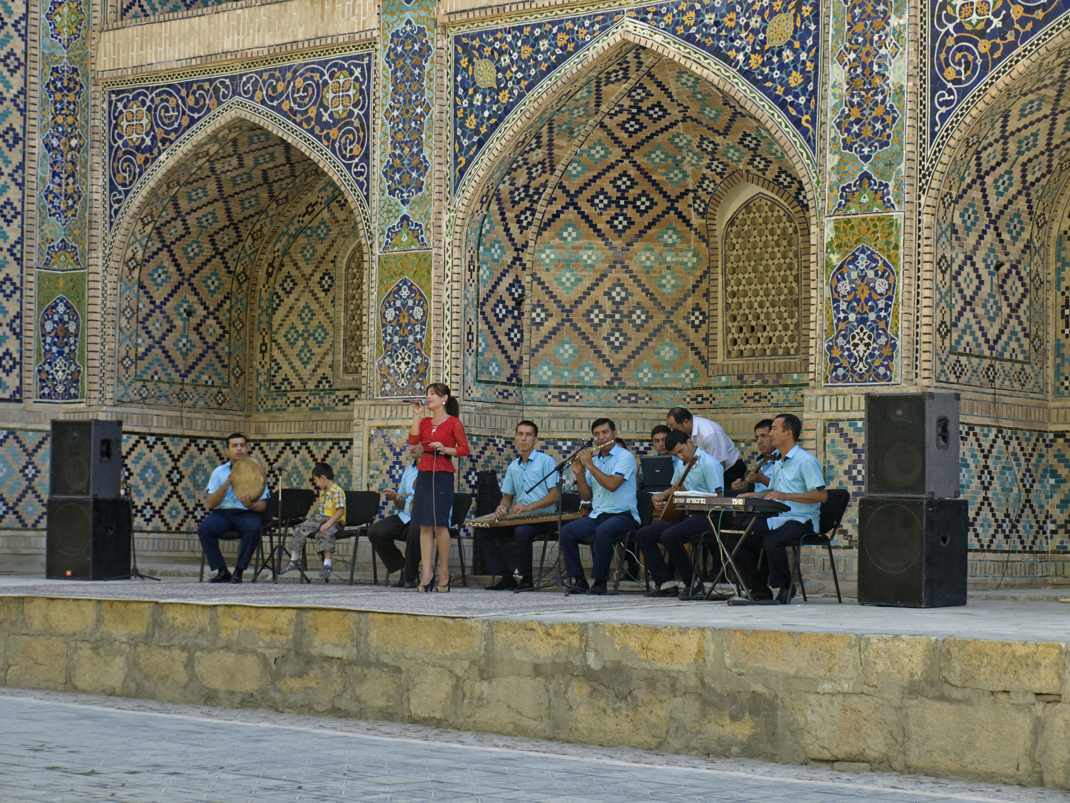 Music performance on the occasion of the Independence Day, 1 September 2015, the exterior of Nadir Divanbegi Madrassah, Bukhara